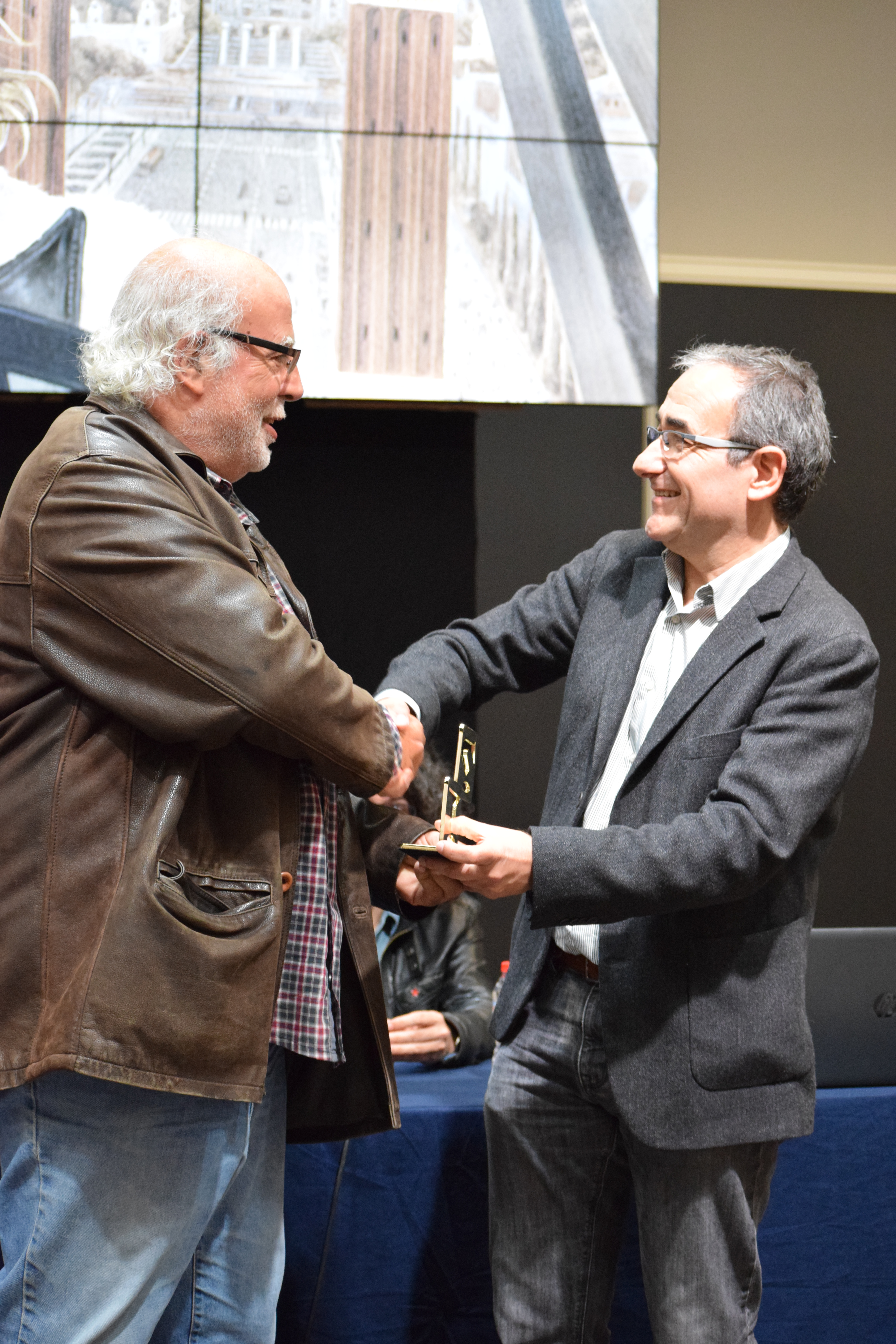 Josep Maria Martín Saurí and Patrici Tixis at the Barcelona International Comic Fair 2017.